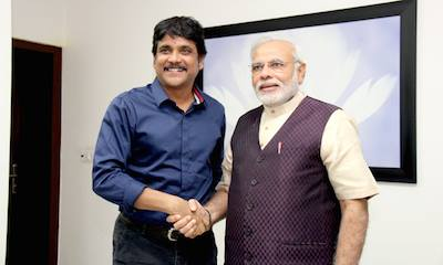 Telugu actor Nagarjuna meeting with Narendra Modi.